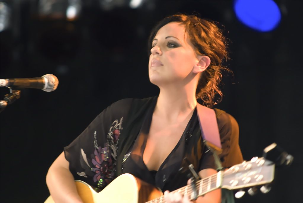 Sarah Gillespie, singer-songwriter, performing at Imperial Wharf Jazz Festival, London, England.